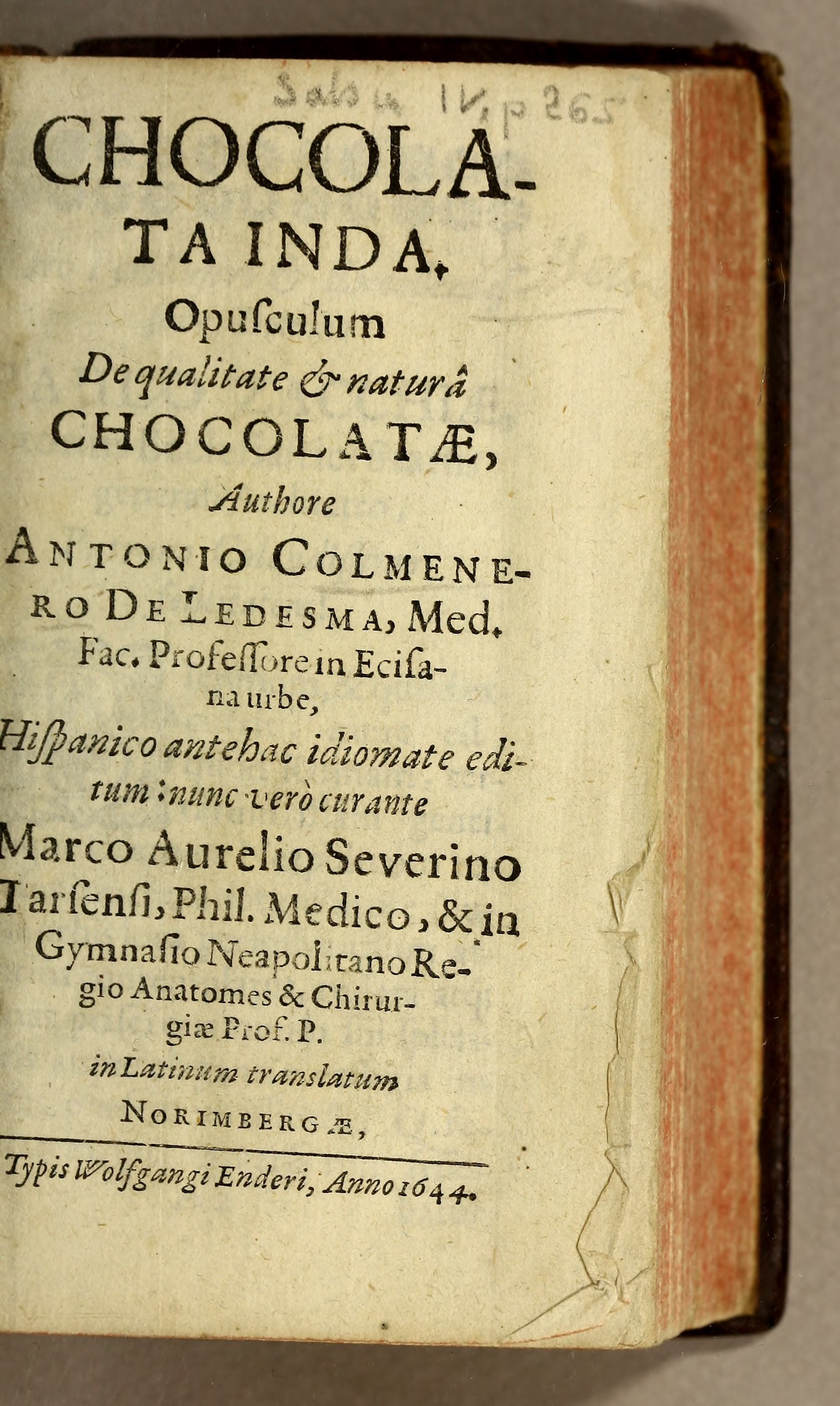 Title page of Antonio Colmenero de Ledesma's Chocolata Inda (Nuremberg, 1644)